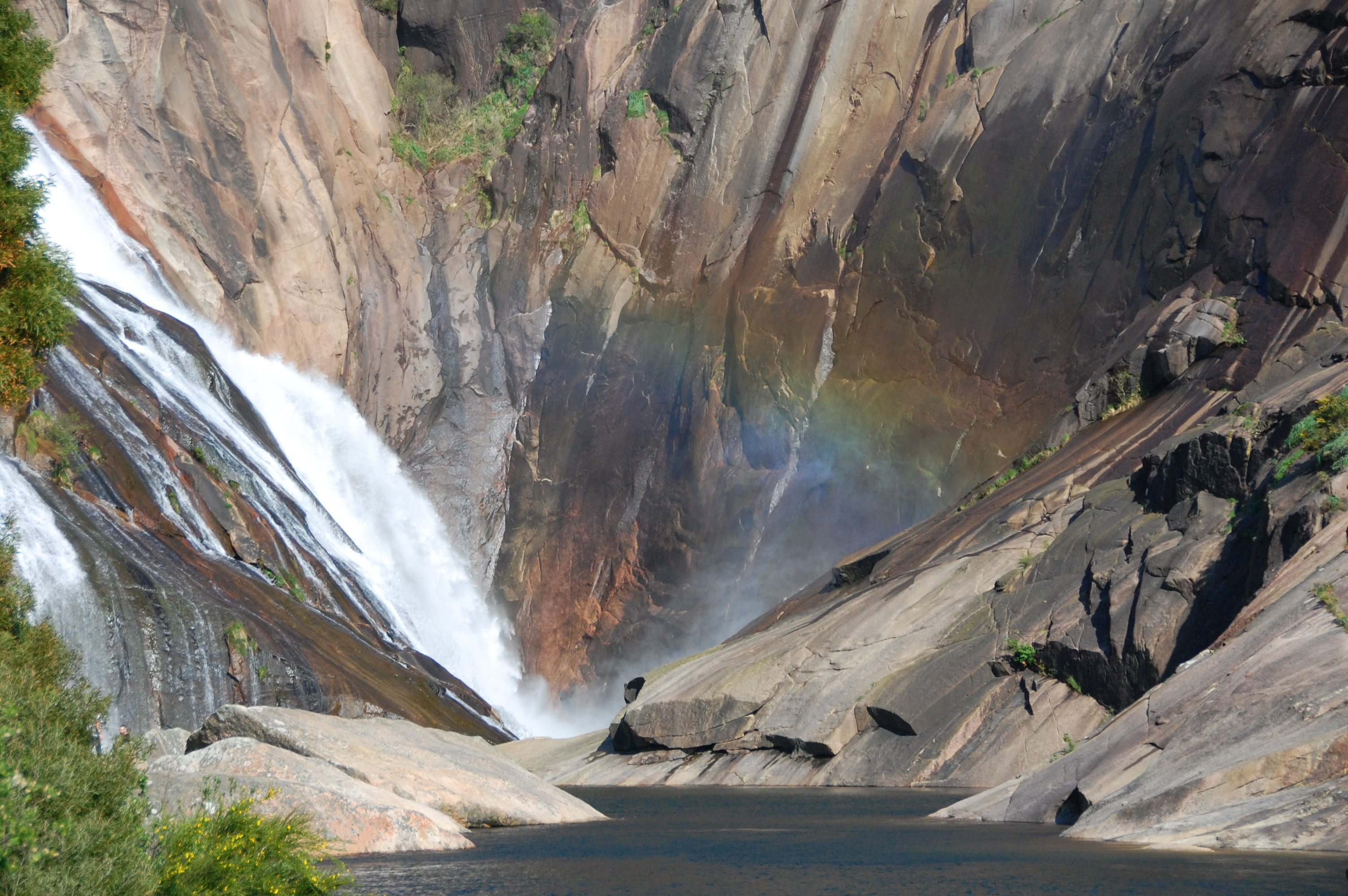 This is a photography of a Site of Community Importance in Spain with the ID: ES1110008. Natura2000 entry, EEA entry